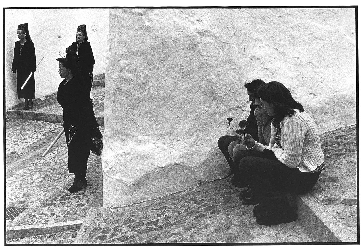 Malaga, Spain